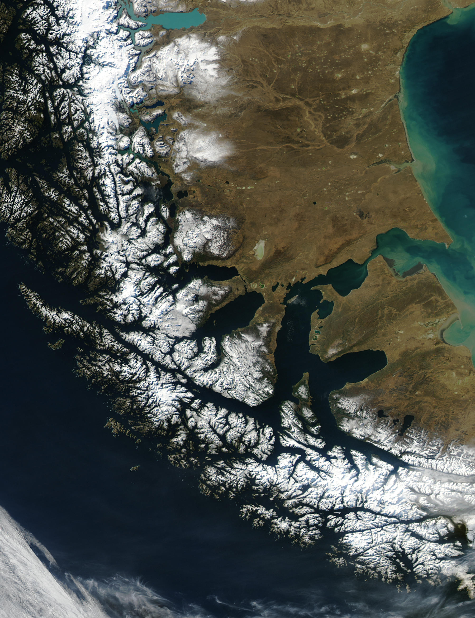 Until the Panama Canal was finished in 1914, the Strait of Magellan was the only safe way to move between the Atlantic and Pacific Oceans. Protected by the Tierra del Fuego to the south and the bulk of South America to the north, ships crossed in relative ease, removed from the dangers of Drake Passage. Drake Passage is the relatively narrow stretch of ocean separating South America from Antarctica, the waters of which are notoriously turbulent, unpredictable, and frequented by icebergs and sea ice. In this unusually clear true-color Moderate Resolution Imaging Spectroradiometer (MODIS) image, the entire Strait is visible. The eastern opening is the wide bay on the border of Chile and Argentina. To the west, there are a number of access points from the Pacific, though the most easily seen here is the roughly 200 km stretch from the Queen Adelaide Archipelago (at center left) to the bulk of the Strait (at lower center). The islands and mountains are highlighted by bright white snow, while the lower-elevation lands to the north and east remain clear. This image was acquired by the Aqua satellite on August 27, 2003.